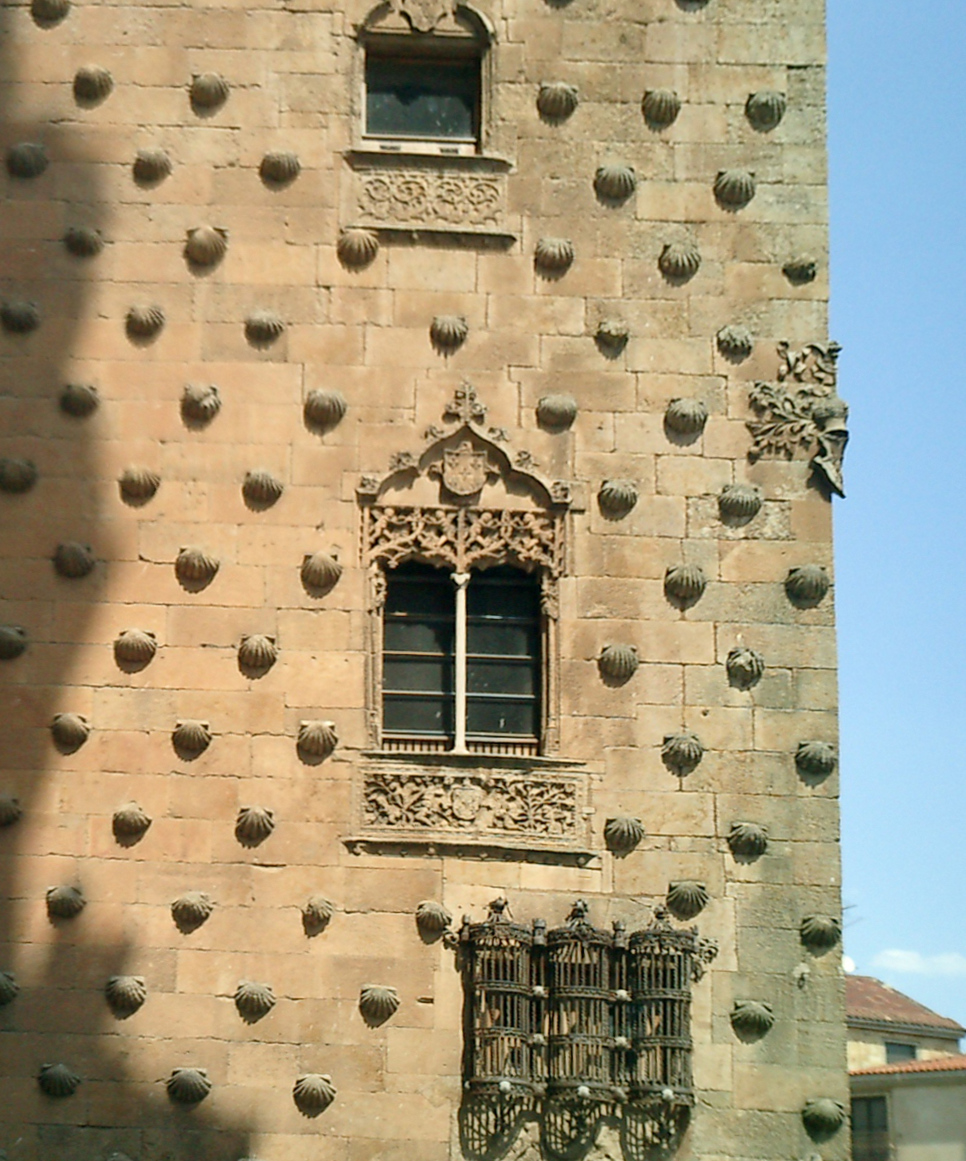 House of Shells (Casa de las Conchas), Salamanca, Spain